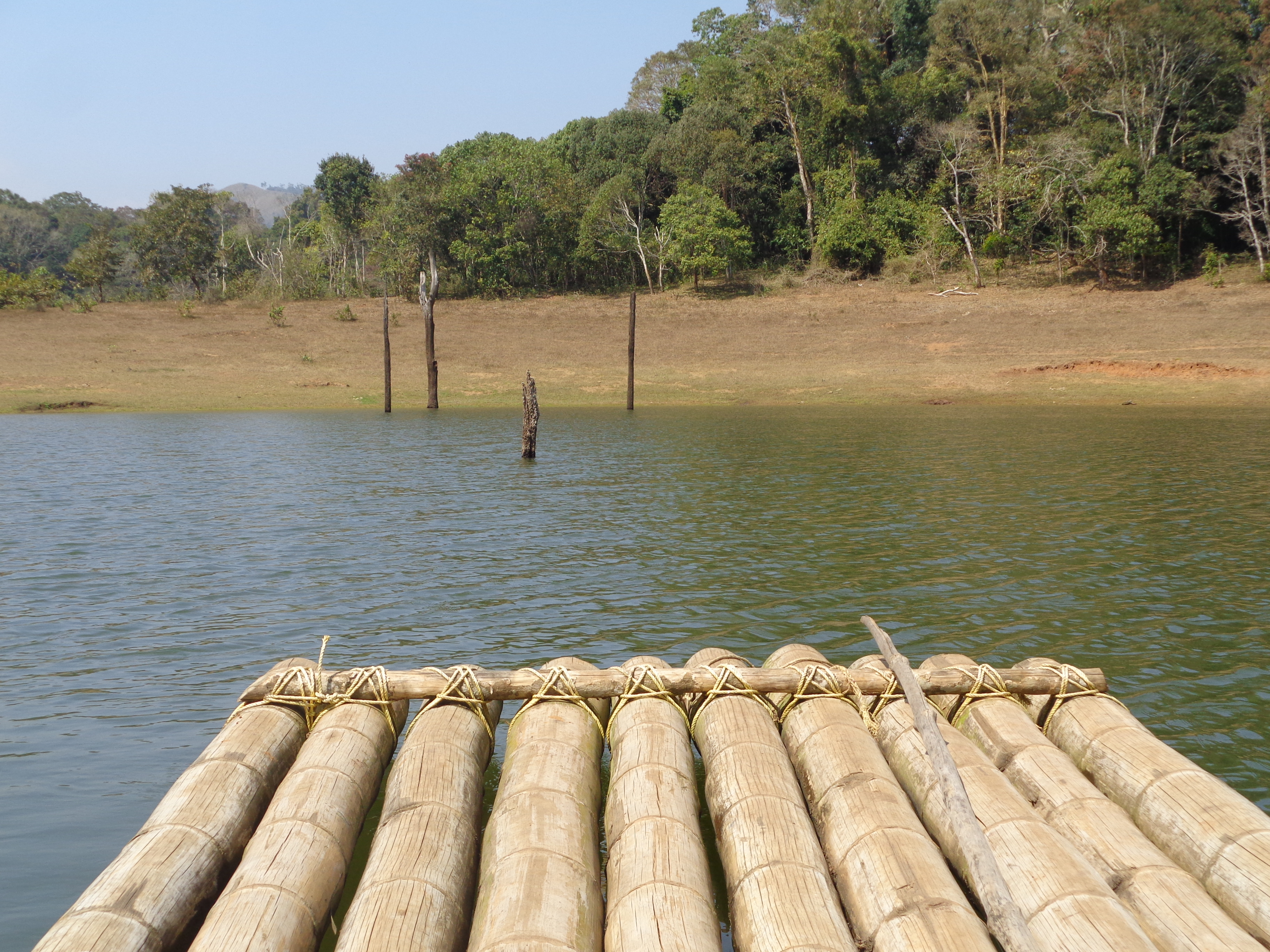 Bamboo Rafts, Periyar